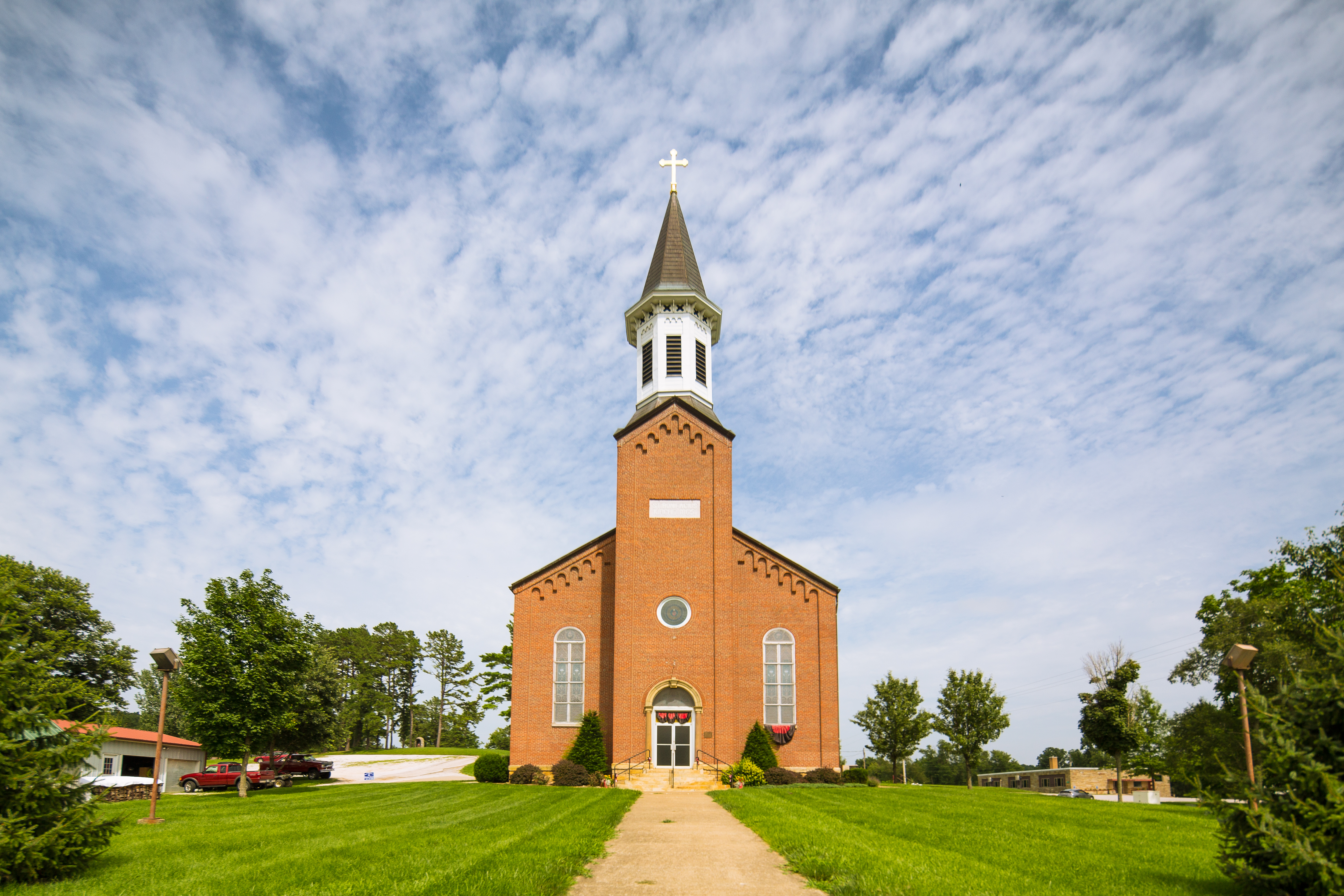 Photo from Small Town Indiana photo survey.